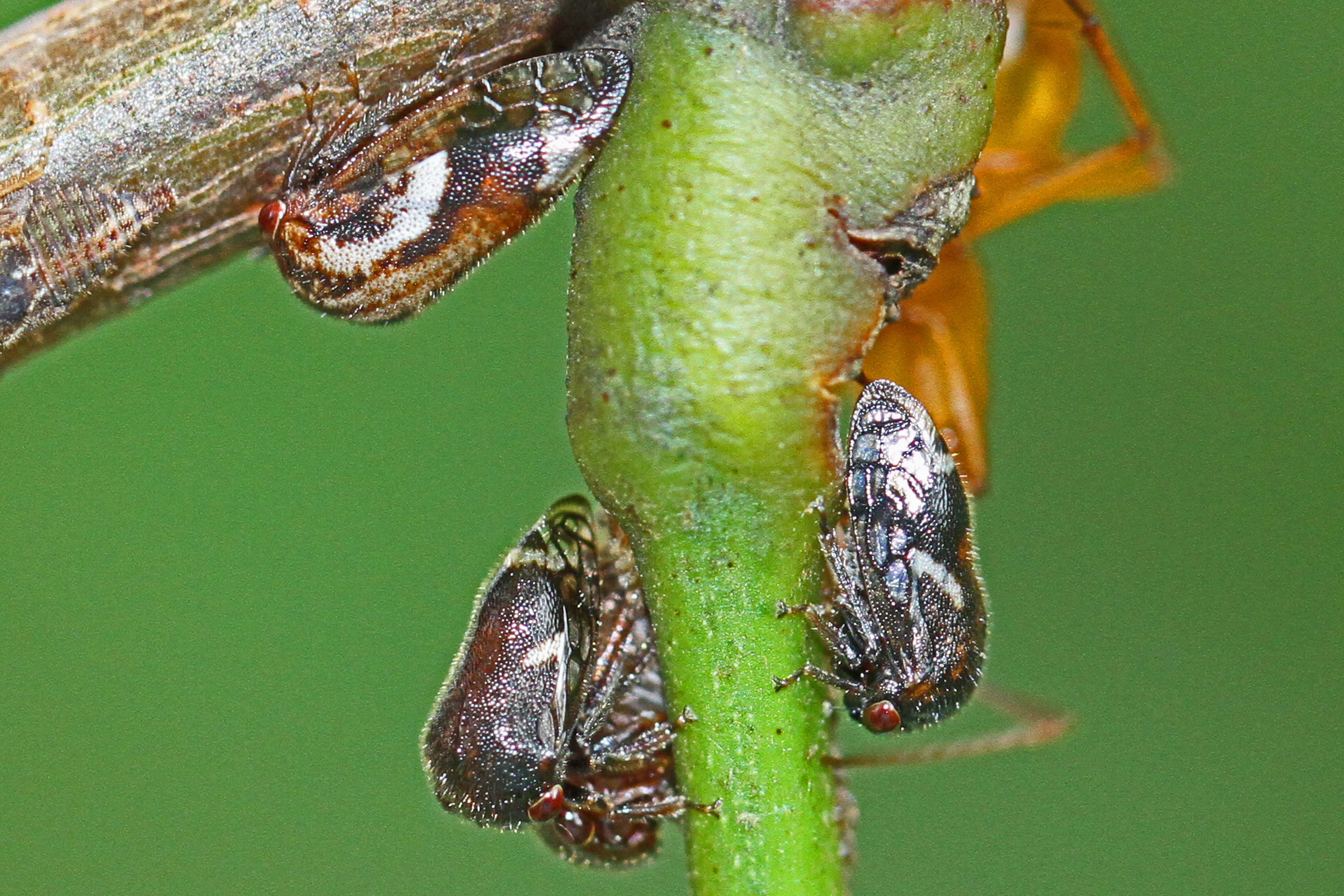 Black Locust Treehoppers - Vanduzea arquata, Leesylvania State Park, Woodbridge, Virginia. These are tiny - around 5 mm. long. This is a blurry shot, but it's the best I could get. They are tended by ants for their sweet secretions.